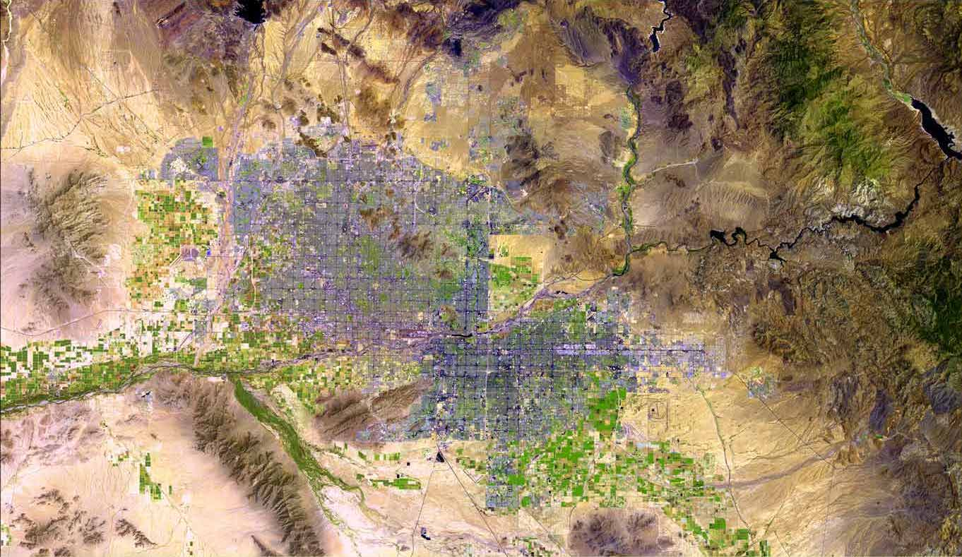 Phoenix, Arizona, from Space. The raw satellite imagery shown in these images was obtain from NASA and/or the US Geological Survey. Post-processing and production by